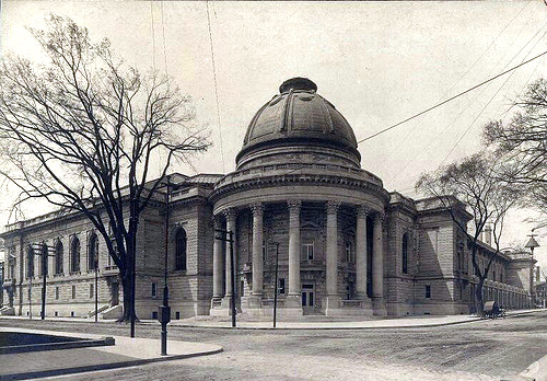 View of Woolsey Hall along College Street, Memorial Hall (center domed building), and University Dining Hall (The Commons) along Grove Street, Yale College, Yale University, New Haven, Connecticut. The three buildings were erected between 1901 and 1902, and were designed by the New York City architectural firm of Carrère and Hastings. Image courtesy of the Yale University Manuscripts & Archives Digital Images Database. Retouched by MarmadukePercy.